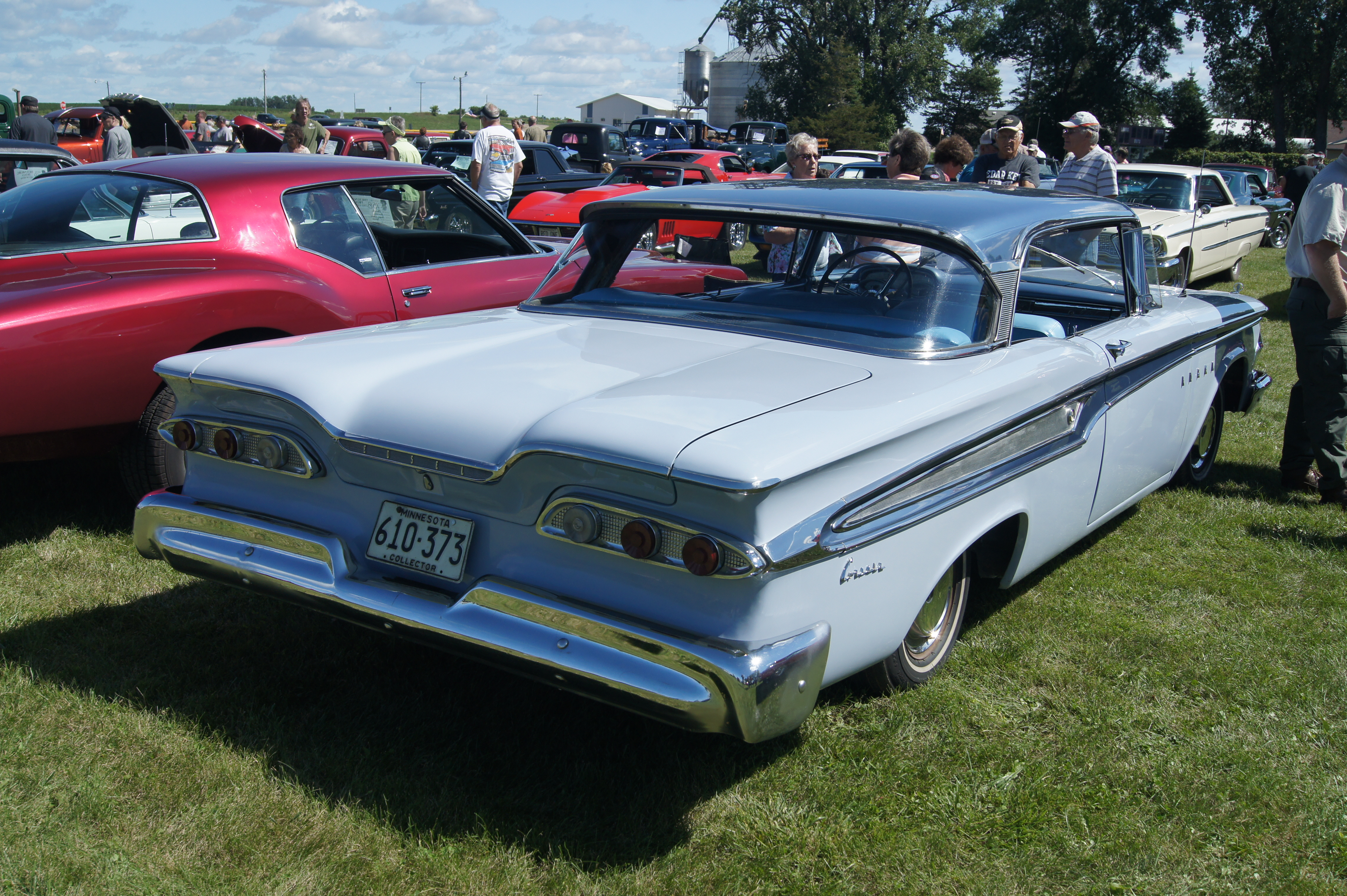 6th Annual Trolls Classic Car Show Hosted by: Sunburg Trolls Car Club Club Website: Labor Day, September 1, 2014 Sunburg Community Center Sunburg Minnesota More car pictures separated by make by clicking on this Flickr link